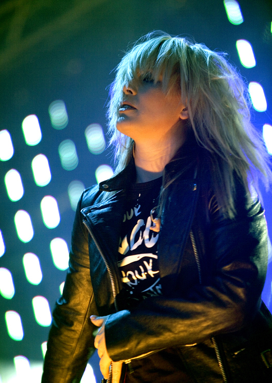 Anouk performing live